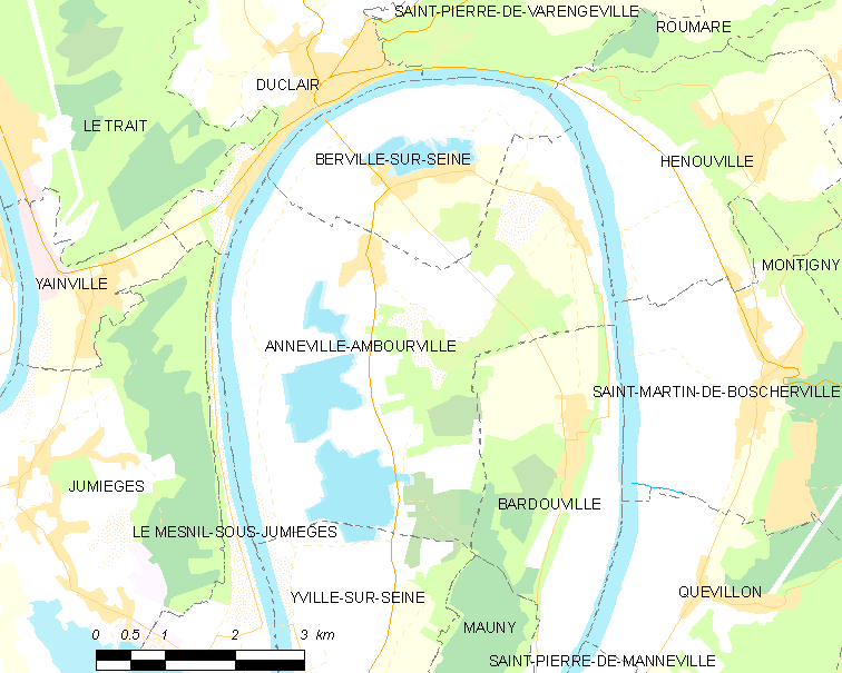 Map of French municipality Anneville-Ambourville